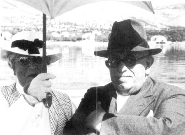 Former Khedive of Egypt Abbas Hilmi II in exile in Switzerland sharing a boat with his sister Princess Nimet-Allah.